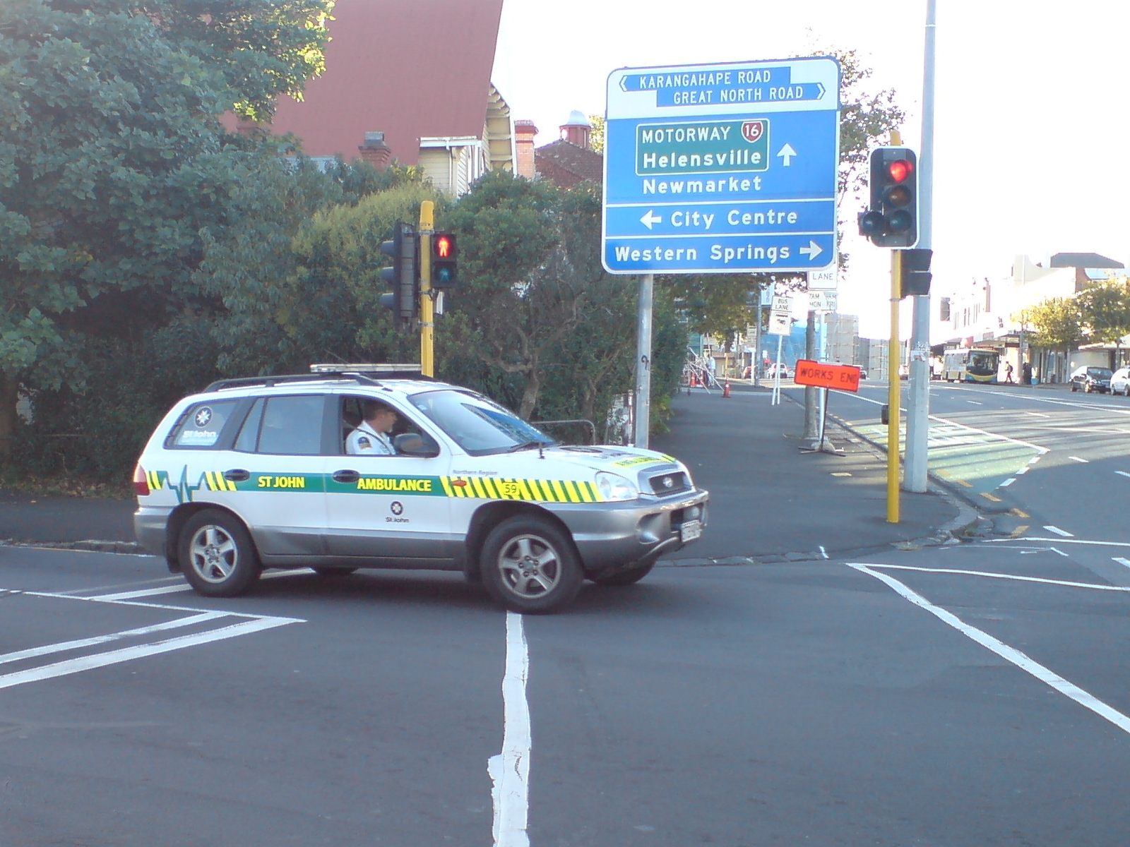 A Saint John's ambulance in Auckland City, New Zealand.